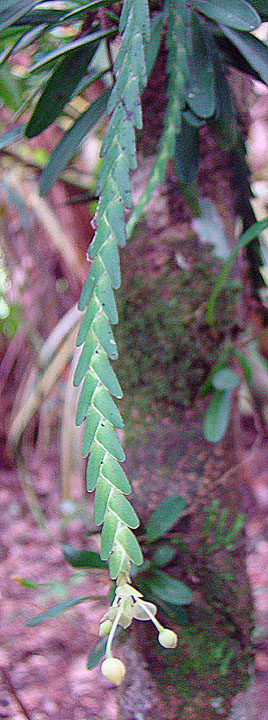 Beginning to bloom in the Guatuzos Reserve, southernmost Nicaragua. In context at